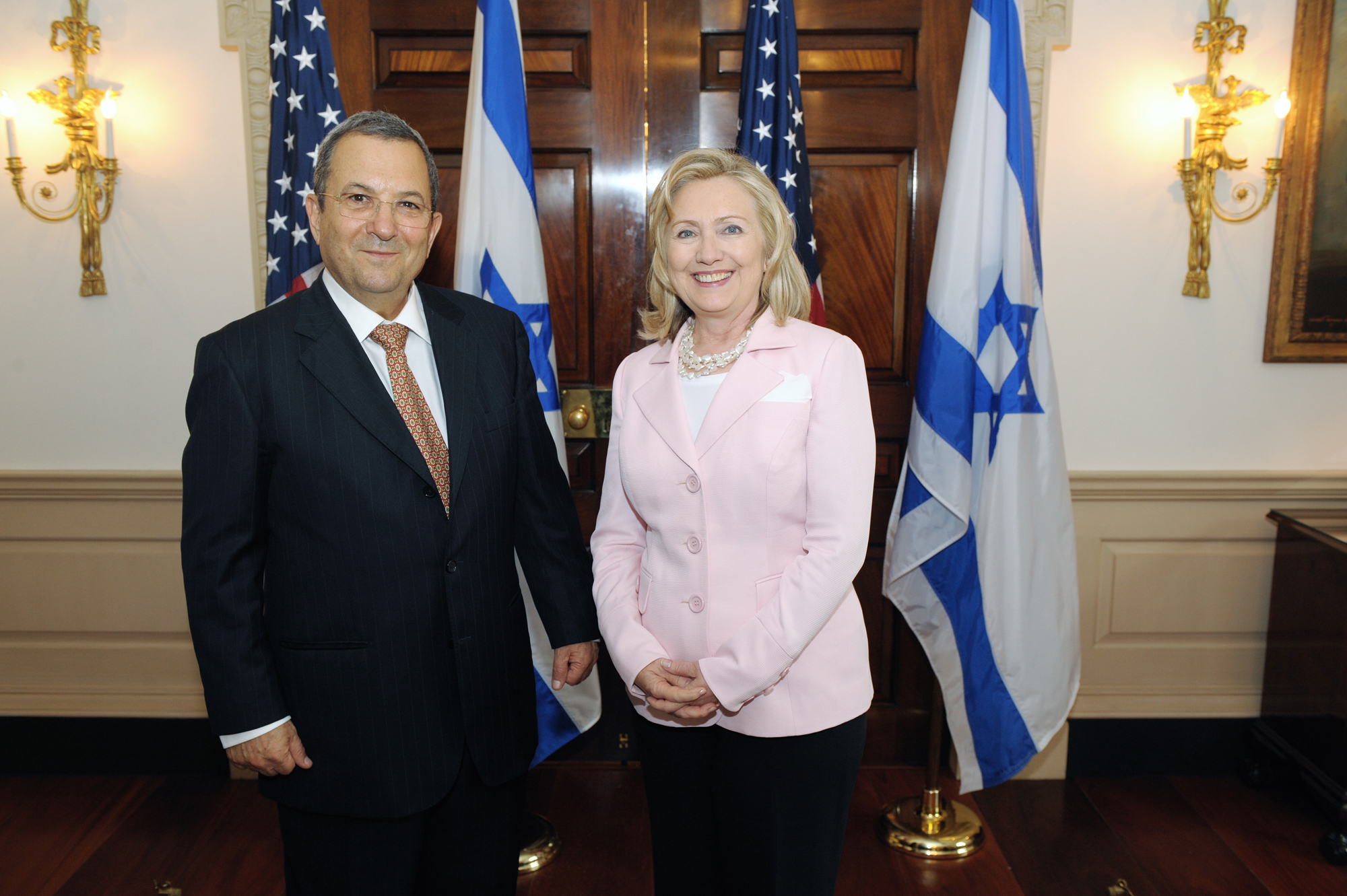 U.S. Secretary of State Hillary Rodham Clinton meets with Israeli Defense Minister Ehud Barak, at the U.S. Department of State in Washington, D.C., on July 28, 2011. [State Department photo/ Public Domain]